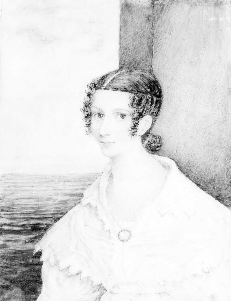 Miniature on ivory, portrait of Emily Tennyson (1813–1896), wife of Alfred (later Lord) Tennyson, and a writer in her own right, c. 1857, in the collection of the Beinecke Rare Book & Manuscript Library, Yale.